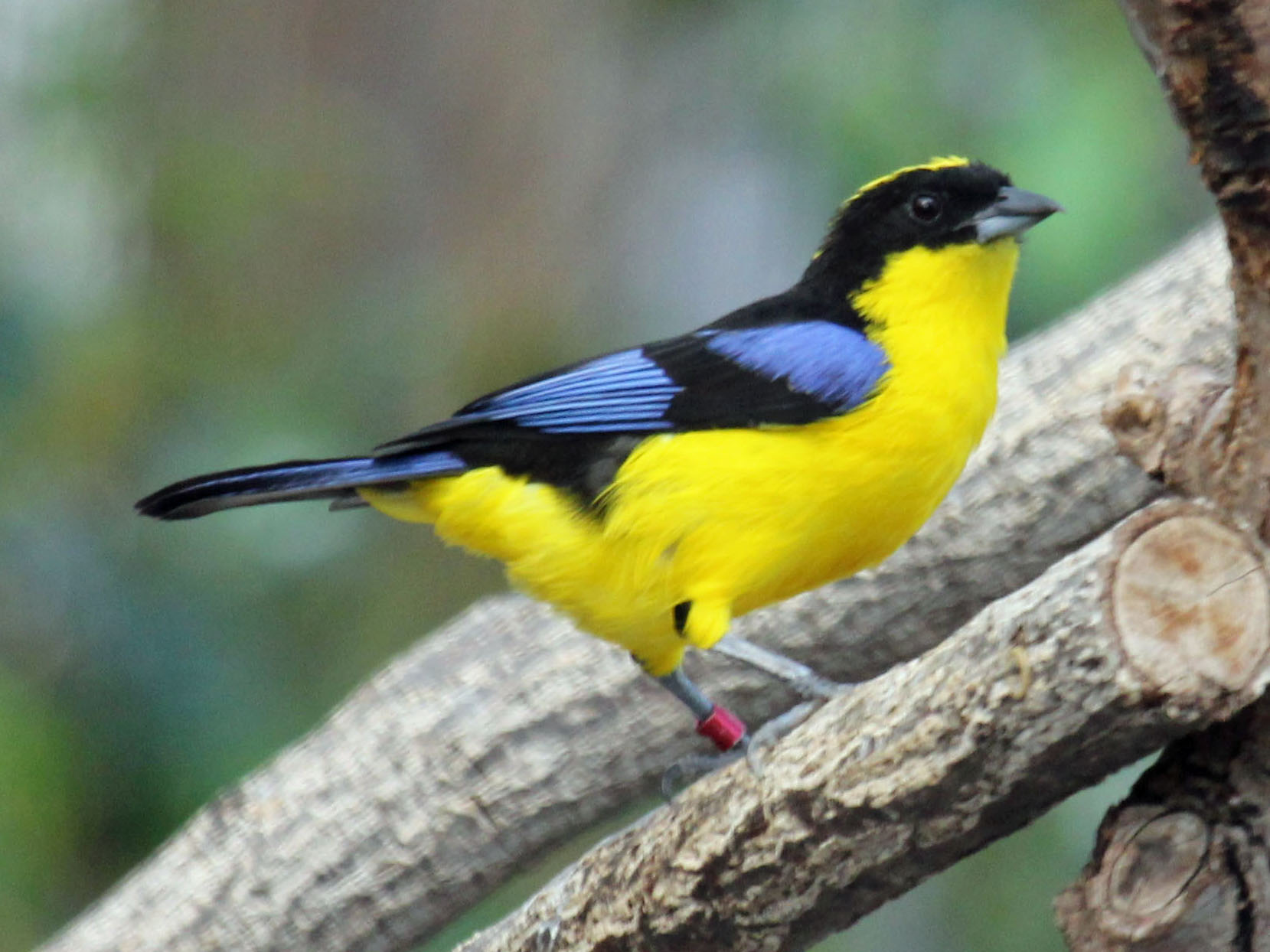 Blue-winged Mountain-Tanager (Anisognathus somptuosus) - National Aviary in Pittsburgh, Pennsylvania.